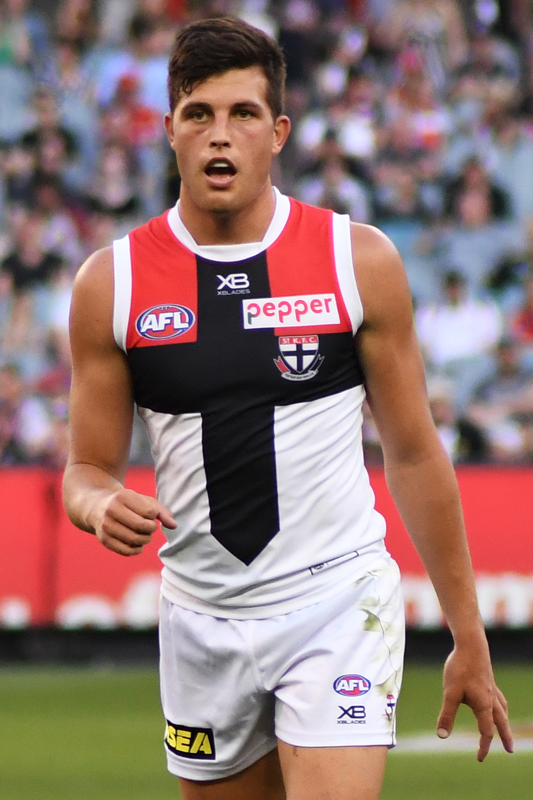 Rowan Marshall of St Kilda during the 2019 AFL round 5 match between Melbourne and St Kilda at the Melbourne Cricket Ground on Saturday, 20 April 2019 in Melbourne, Victoria.